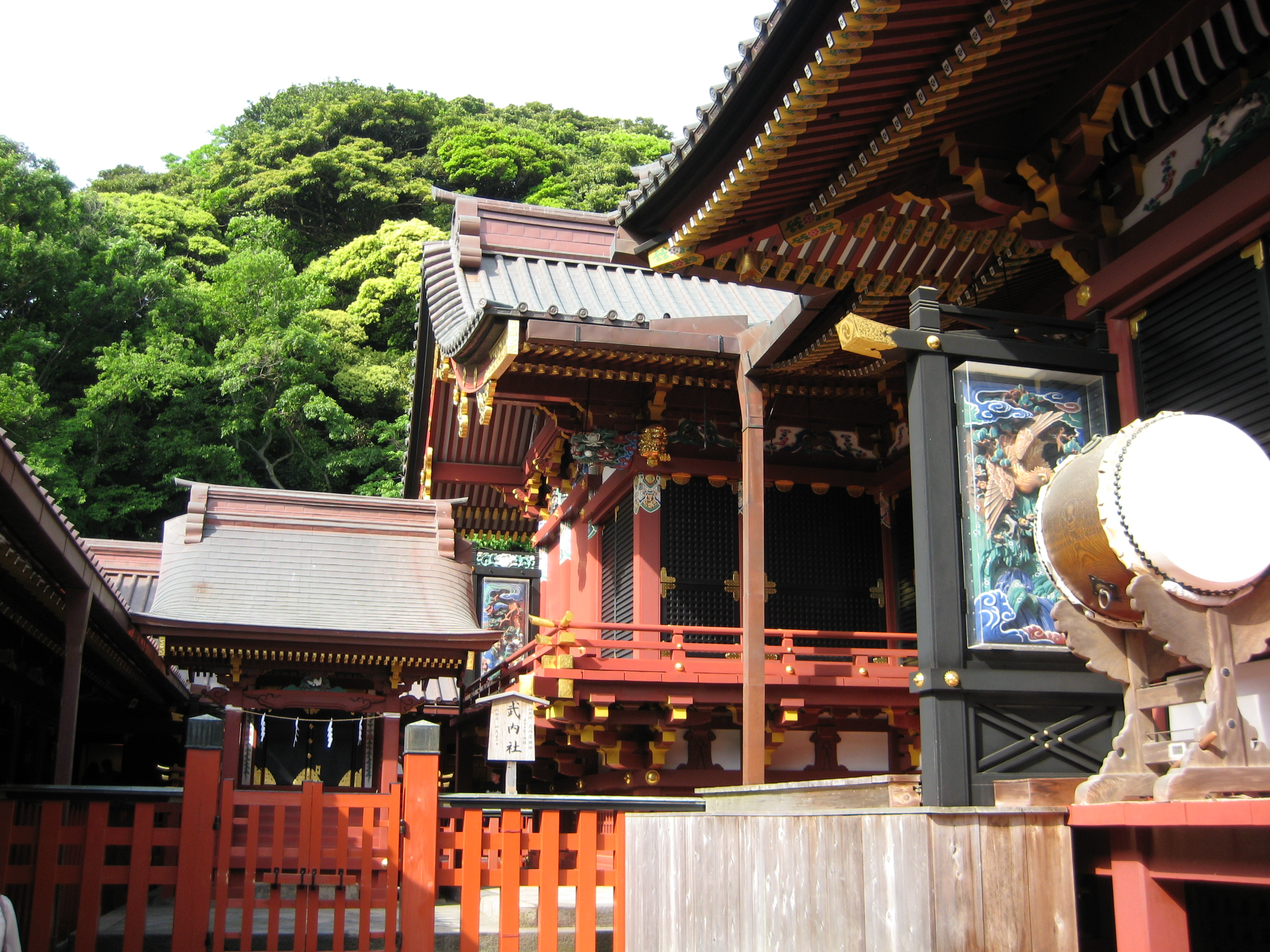 Tsurugaoka Hachiman-gu Shrine, Kamakura.